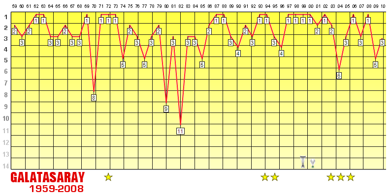 Graph of Galatasaray SK's finishing positions in Turkish League between 1959 and 2008. Galatasaray never relegated from Turkish Top Division. Y axis shows end season position, so "1" means Galatasaray was the champions on that year. Stars above the graph represents 5 titles in league history. Turkish clubs are allowed to use these stars in their logo. (Galatasaray uses 3 stars because of 17 titles, as of 2008)